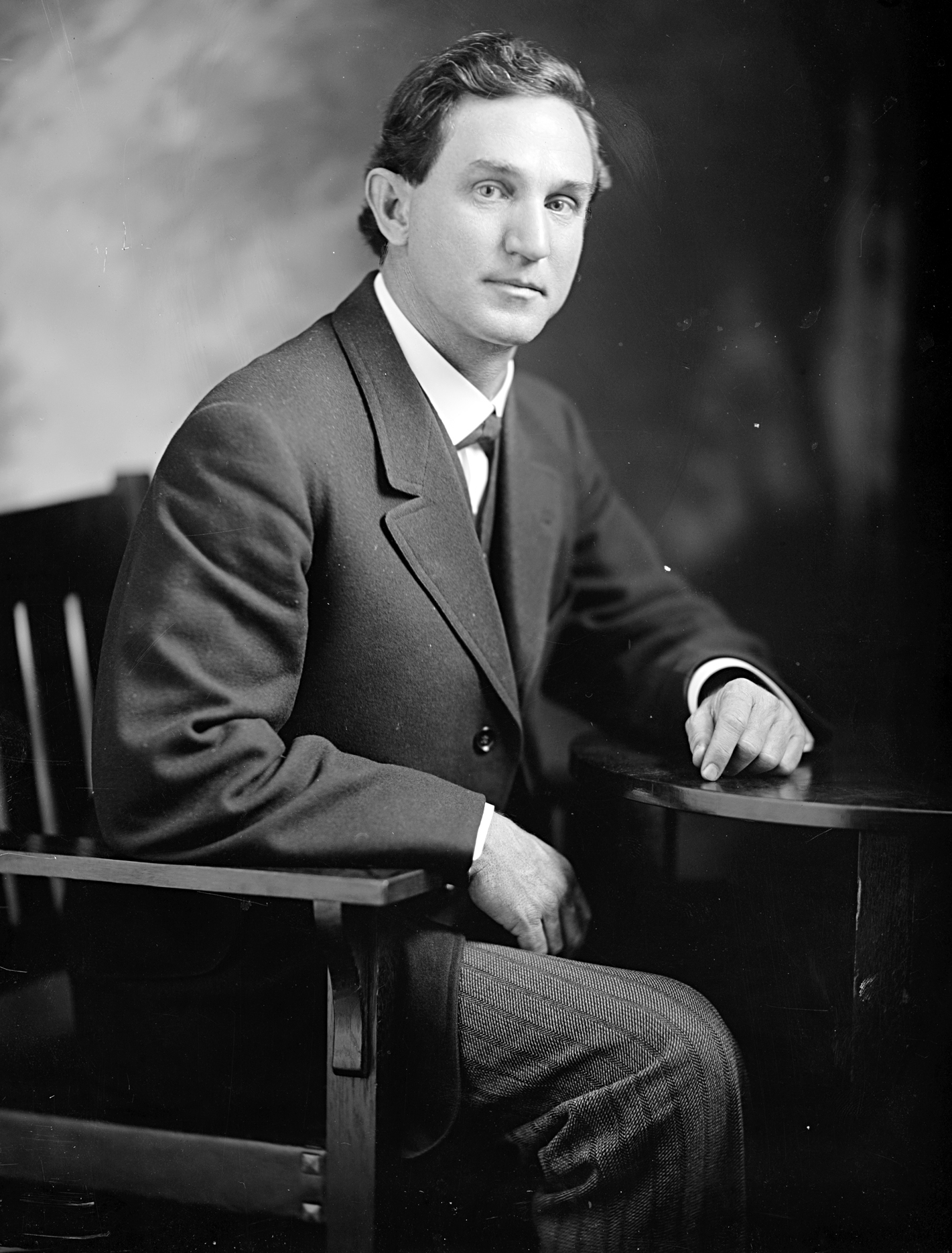 Horace Worth Vaughan, US Representative from Texas